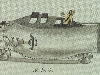 Ole Johannes Winstrup's proposal for a submarine which he called "Hvalfisken" (The Whale).